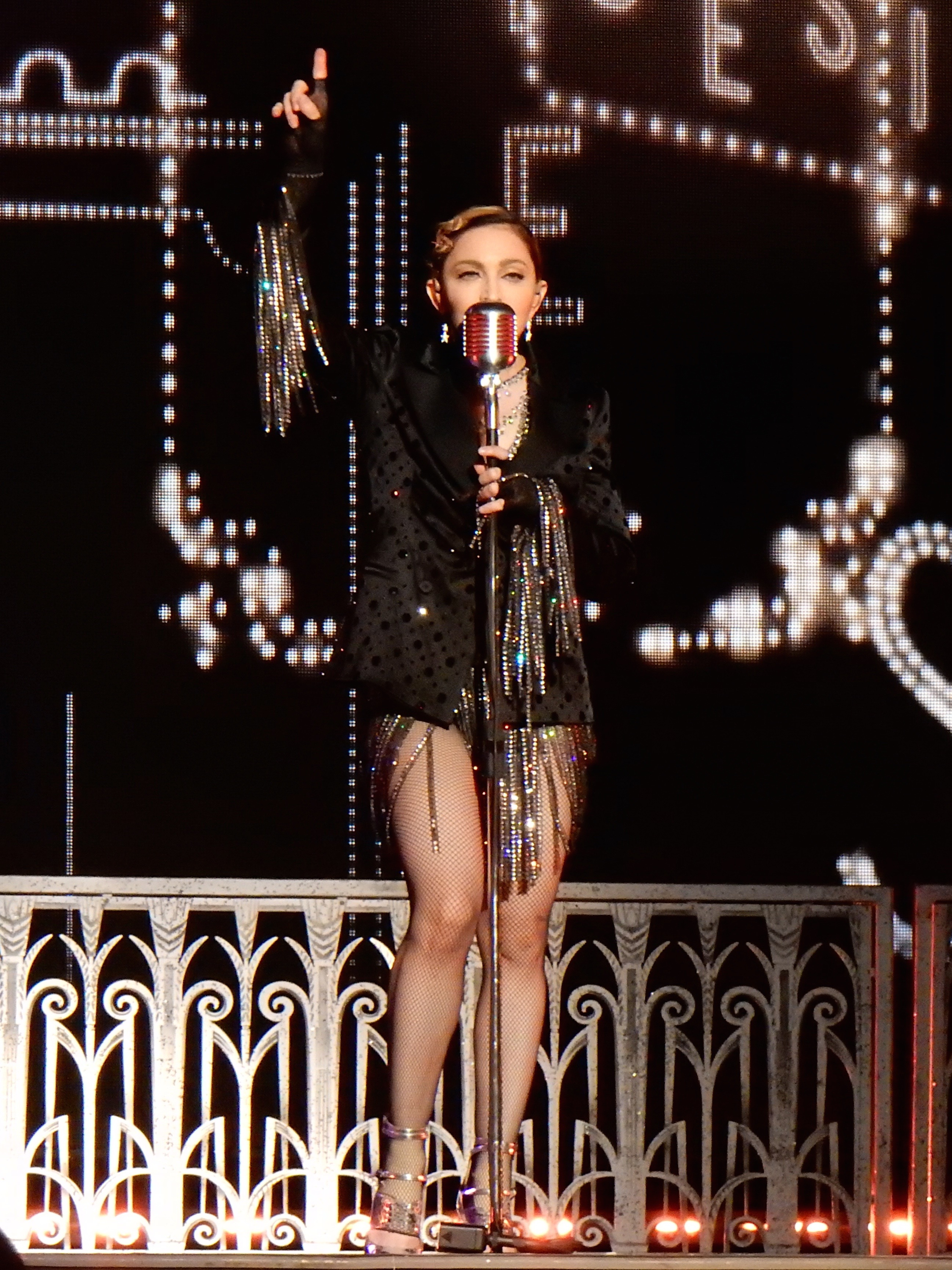 Madonna - Rebel Heart Tour 2015 - Paris 1